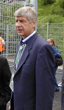 Arsene Wenger. Original photograph by Olaf Nordwich, source URL